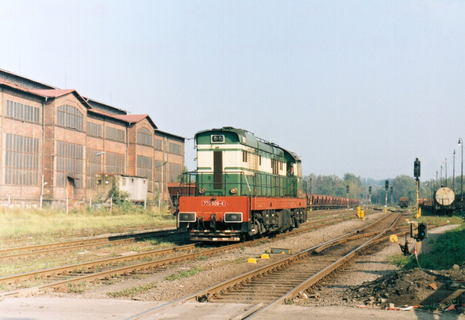 770.506 of OKD, Doprava railway operator, Zárubek station, Ostrava, the Czech Republic